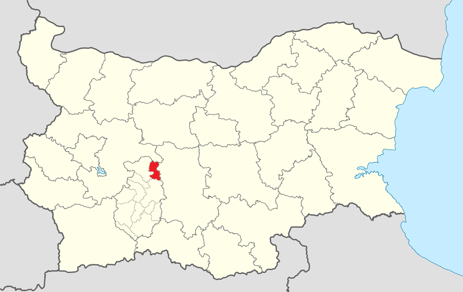 Location map of Strelcha Municipality within Bulgaria and Pazardzik province